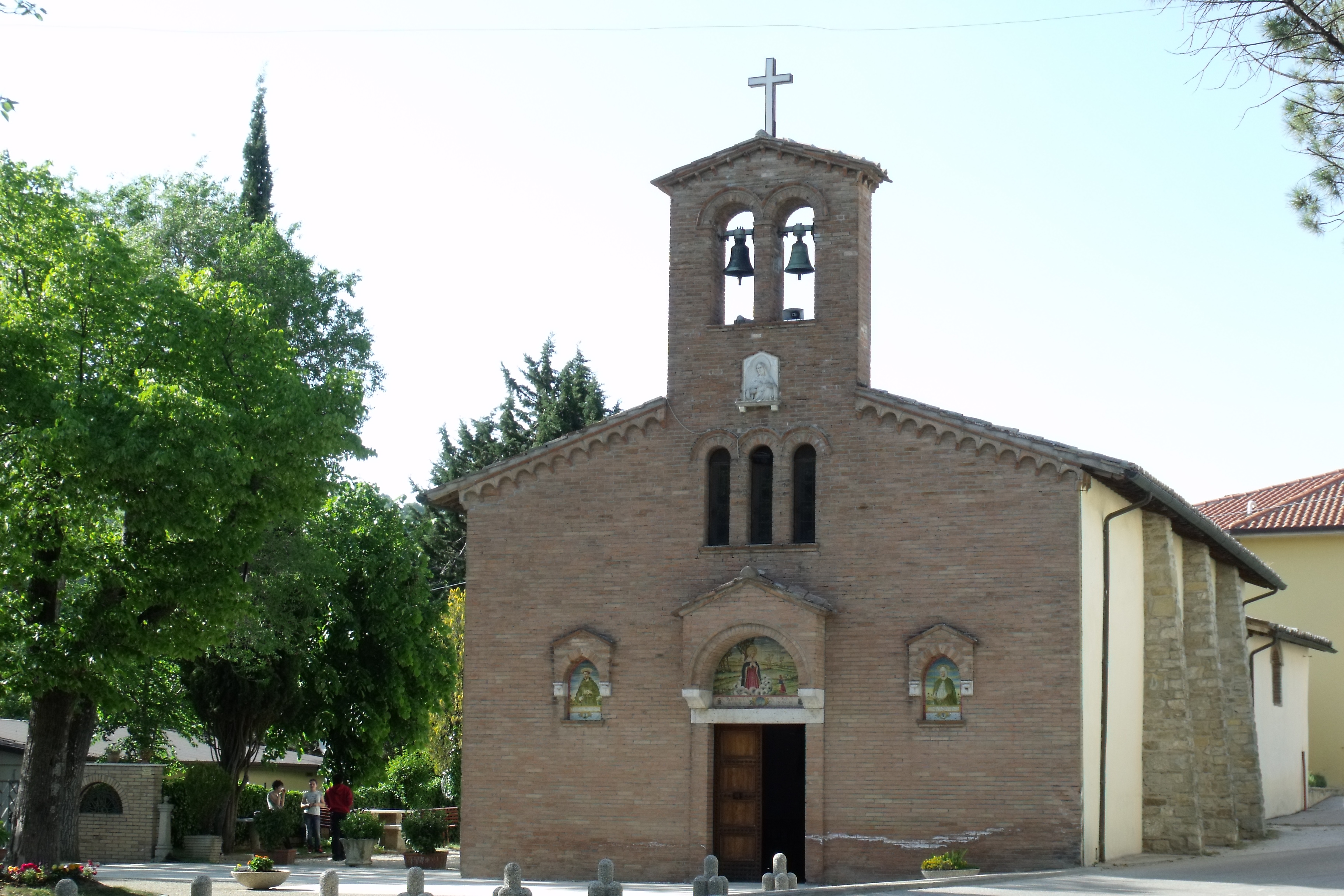 The Santuario della Madonna dell’Olmo in Casacastaldo, Valfabbrica, Province of Perugia, Umbria, Italy